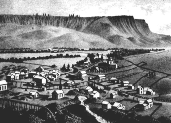 John Day, Oregon in 1885 from The West Shore